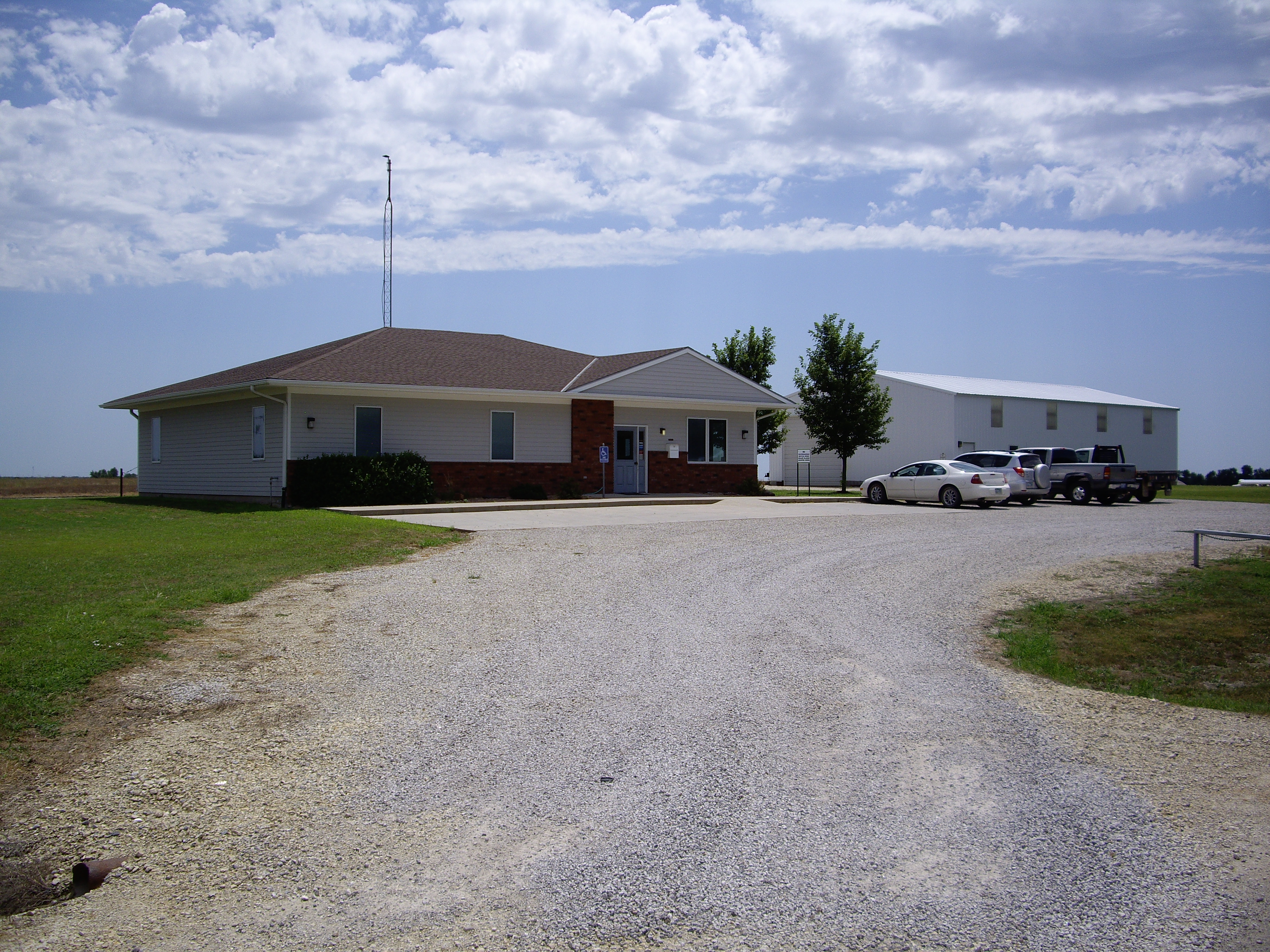 Harvey County Rural Water District No 1, 210 Esau Ave, Walton, Kansas, 67151, USA. Looking southeast. Photo by Steve Meirowsky on August 4, 2010.